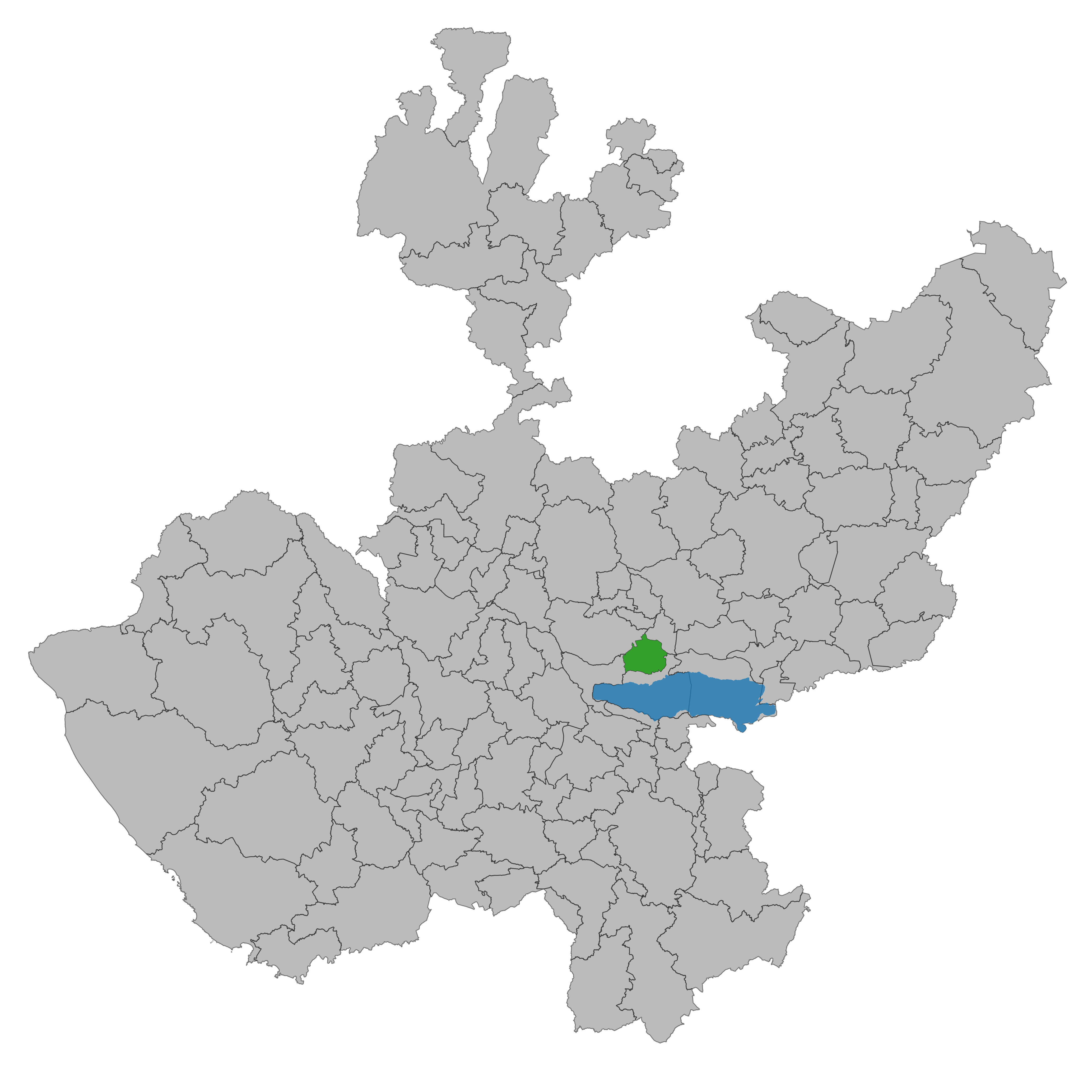 Municipality of Jalisco. Prepared with the software QGIS version 2.8.2 Wien & with information of SCINCE 2010 version 05/2013